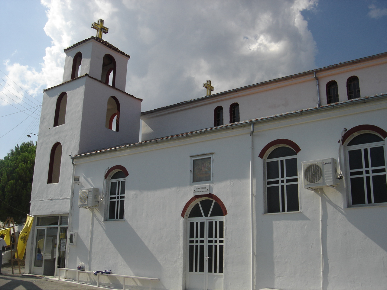 The church of Kimissi tis Theotokou in Meliadi, inaugurated in 1984.